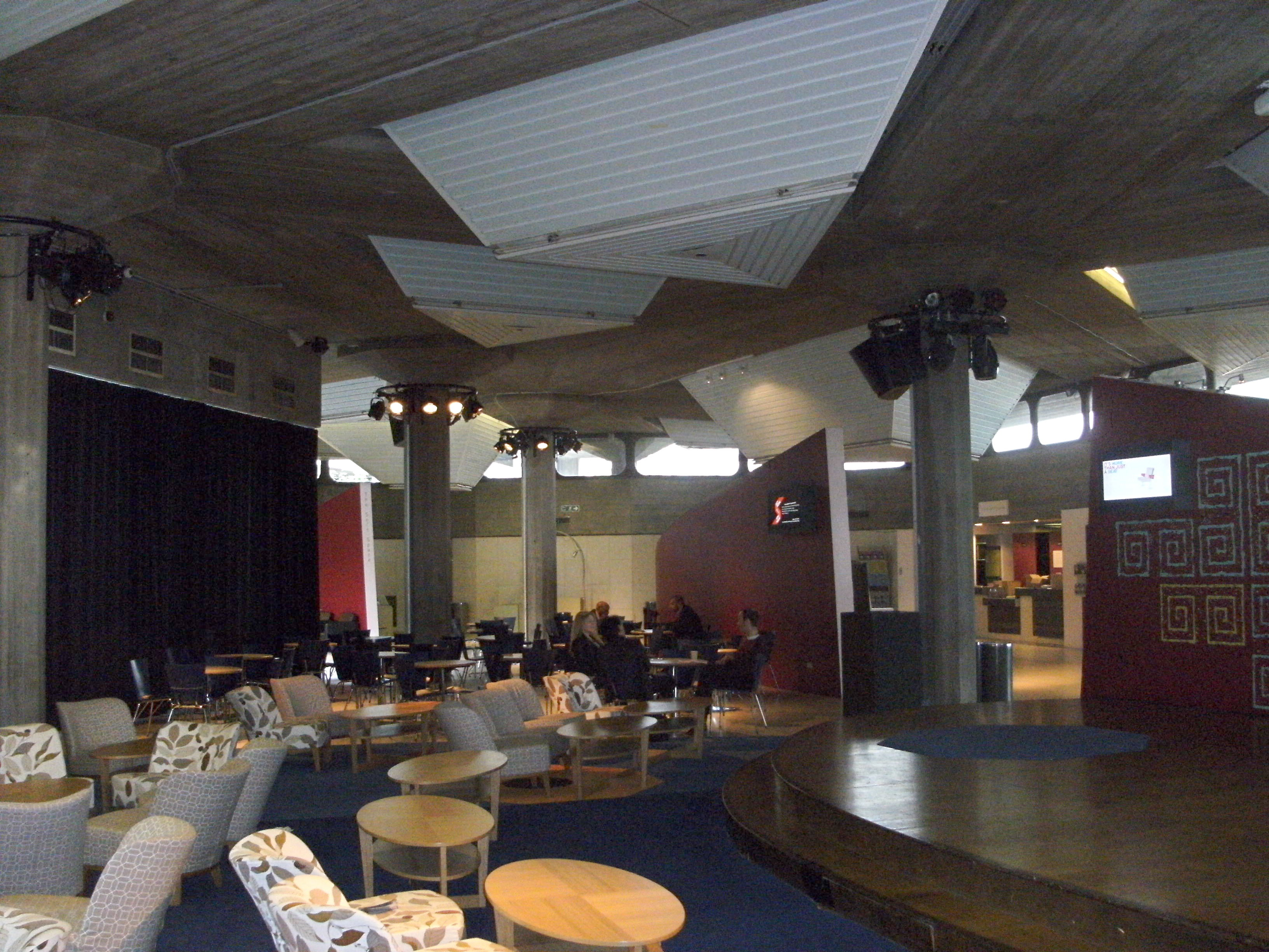 2011-05-30 in London